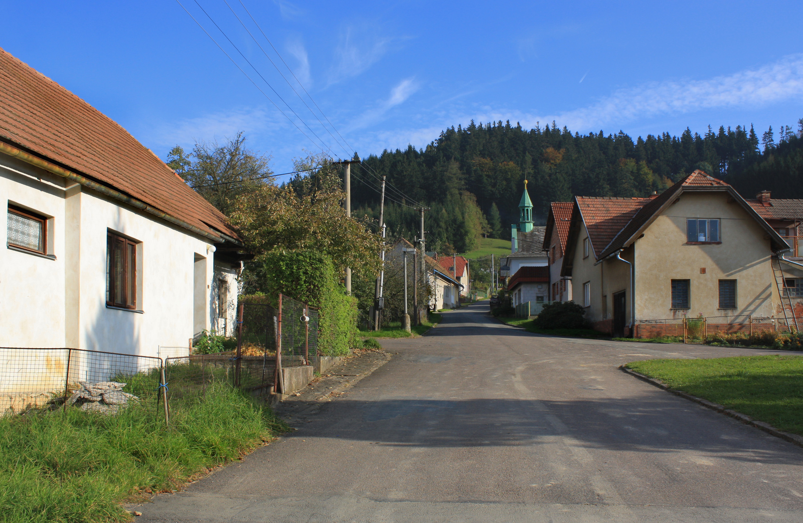 Road to Podhoří hill in Říčky, part of Orlické Podhůří, Czech Republic